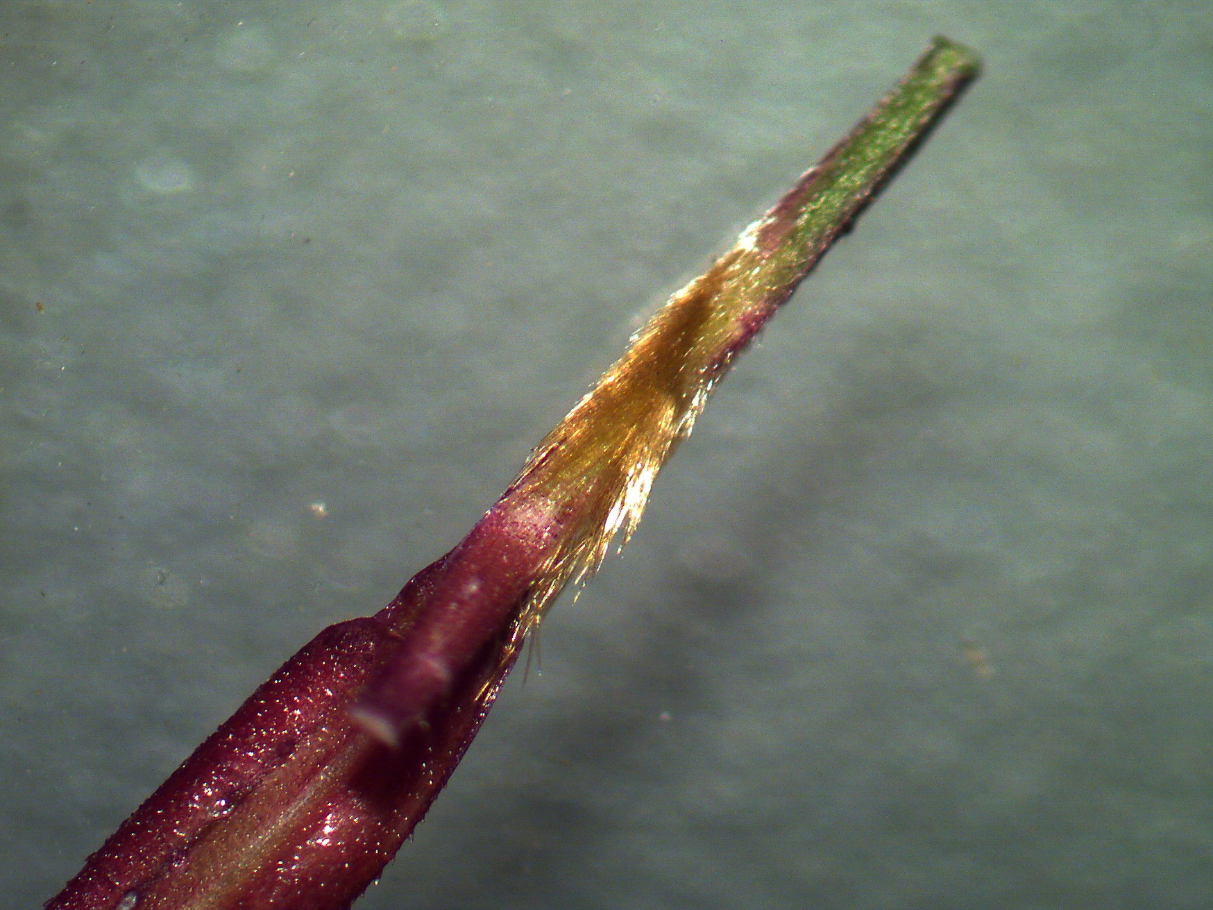 Callus is brown bearded